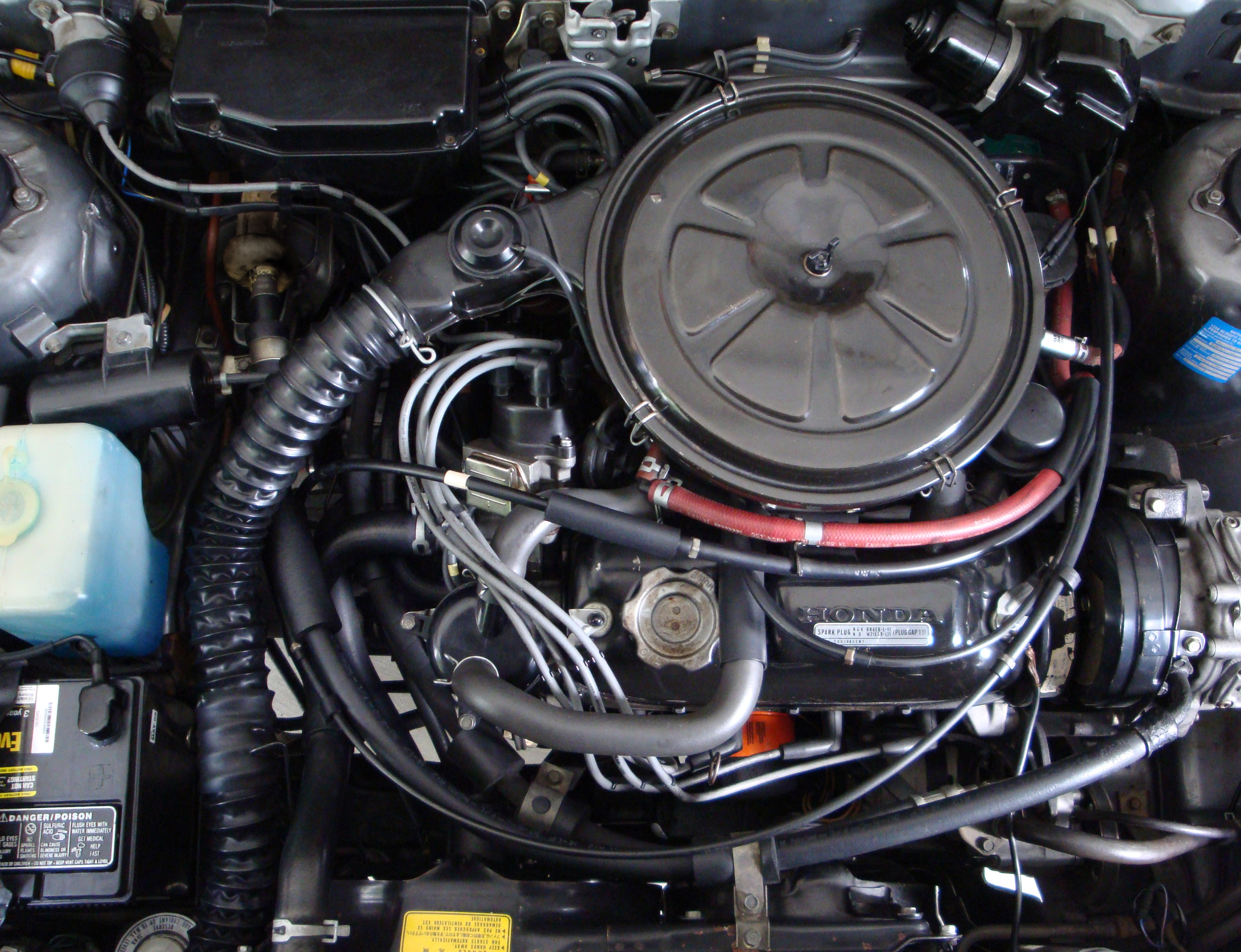 1983 Honda Accord Engine - EK1 model (1751cc CVCC) (US Market, w/ California Emissions (included catalytic converter), w/o High Altitude Kit, w/Tec Ignition System, 5sp manual transmission, Air Conditioning, Cruise Control, Power Steering) This engine is unmodified and un-rebuilt, with 287k miles. Taken on August 15th, 2009, by Nicholas SL Smith in Anacortes, WA, USA.